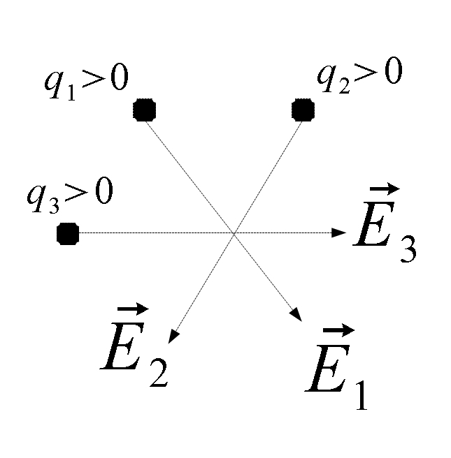 Charges in electric field.Беларуская (тарашкевіца): Зарады ў электрычным полі.